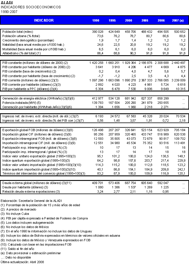 Social indicators